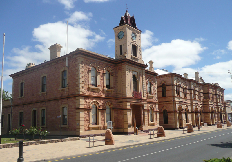 The Old Town Hall, Mount Gambier, South Australia, was built in 1882.